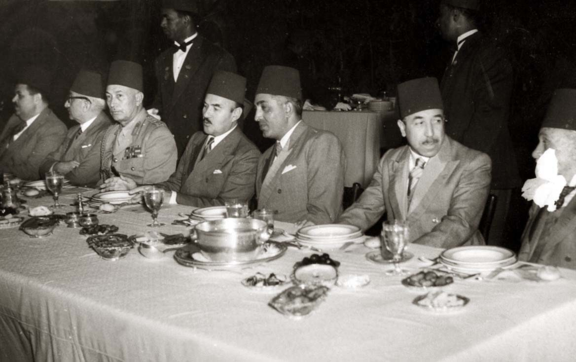 A Ramadan banquet organized by King Farouk I of Egypt. The men seen here are Muhammad Bey Sa'id, director of the Customs Agency, Murtada Bey al-Maraghi, Hassan Pasha Youssef, Omar Fathi Pasha and Abd al-Latif Talaat Pasha.